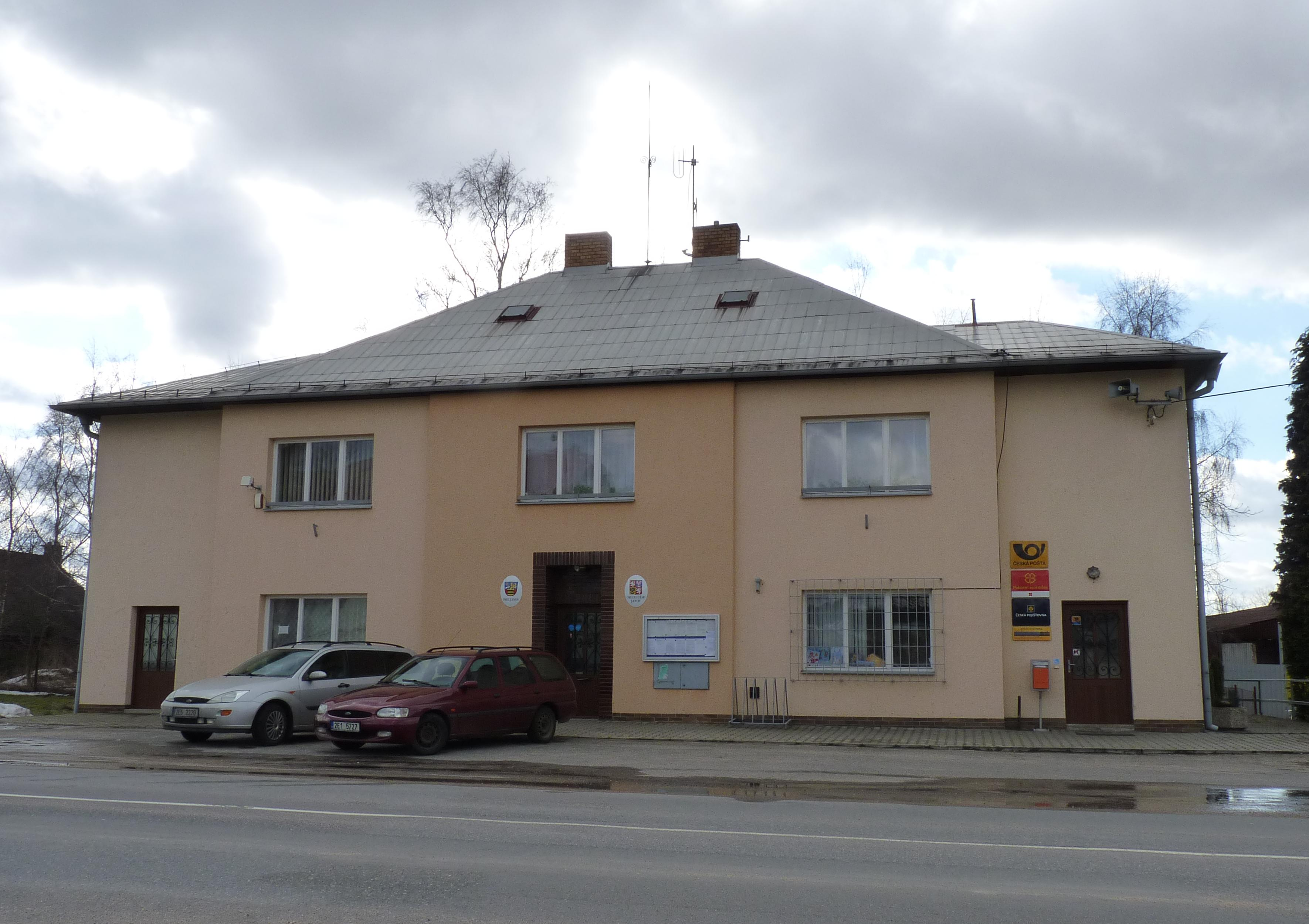 Town hall. Janov, Svitavy District, Pardubice Region, Czech Republic